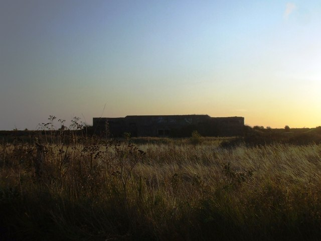 Dummy Battery, Grain I can't seem to find out much about this building apart from what's called.